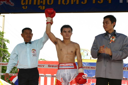 Photo Courtesy of Scott Mallon